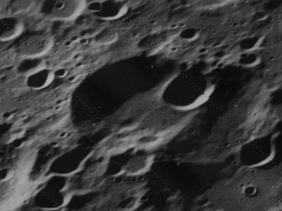 Oblique view of Healy, on the far side of the moon, facing west.